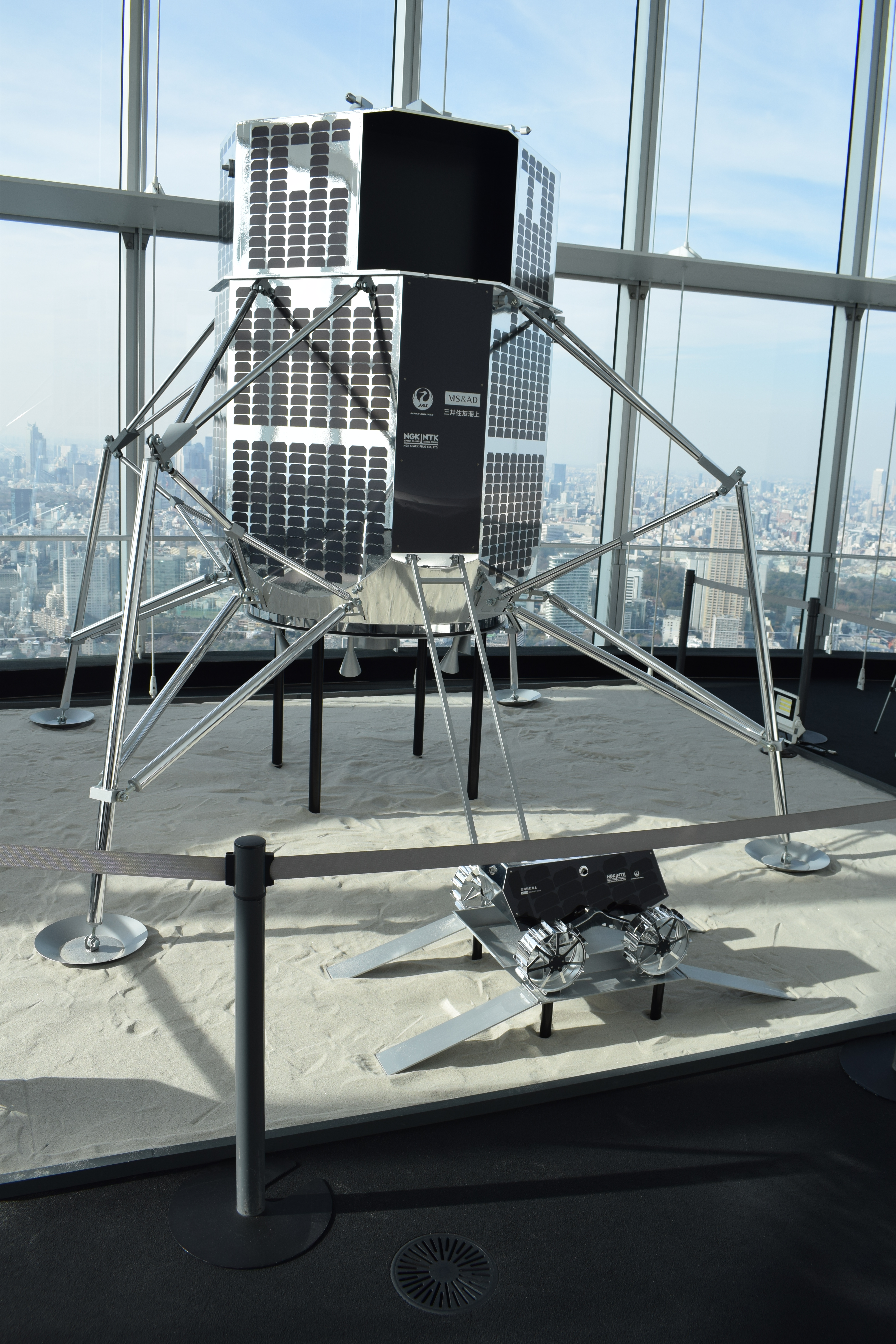 Hakuto's proposed lunar lander and Sorato rover.